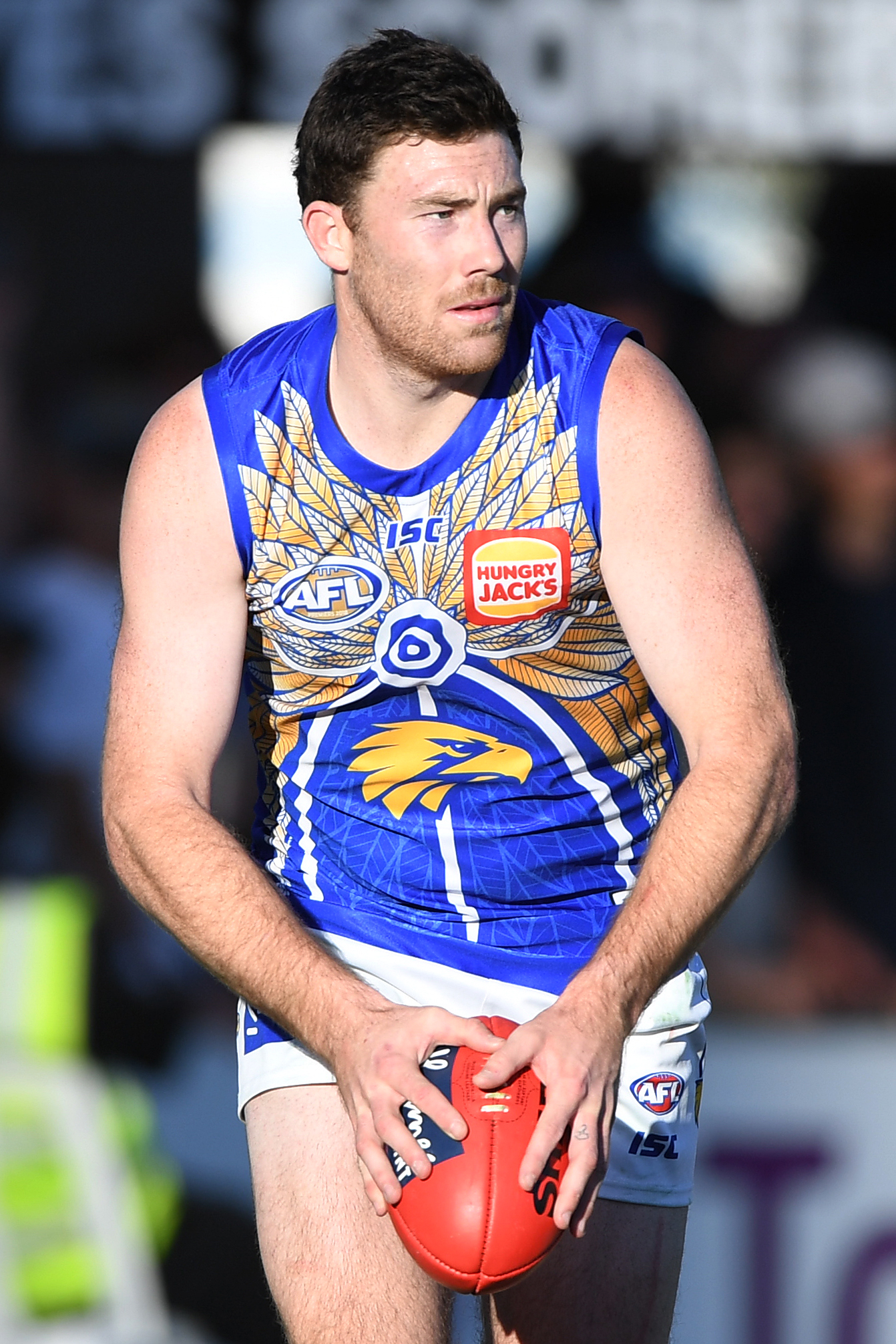 Jeremy McGovern of West Coast during the 2019 AFL round 18 match between Melbourne and West Coast at Traeger Park on Sunday, 21 July 2019 in Alice Springs, Northern Territory.